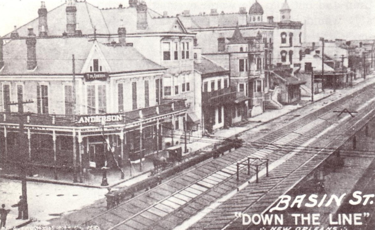 New Orleans: "Basin Street Down the Line". View is of the high-rent section of the "Storyville" Red light district. Looking down river showing buildings on the lake side of Basin; the corner at bottom left is with Customhouse Street (since renamed Iberville Street). Block of visible buildings includes from left to right Tom Anderson's Saloon (with pillared sidewalk gallery/balcony), the brothels of Hilma Burt, Diana & Norma, Lisette Smith, Minnie White, Josie Arlington (with rounded cupola), Martha Clarke (smaller older building), Lulu White's Mahogany Hall (with pointed cupola) and Lulu White's Saloon. The first building on the next block is Frank Toro's Saloon. The sheds for the Southern Railway along the Basin Street neutral ground, running back from the New Orleans Terminal building, are visible going back diagonally starting at the bottom right.